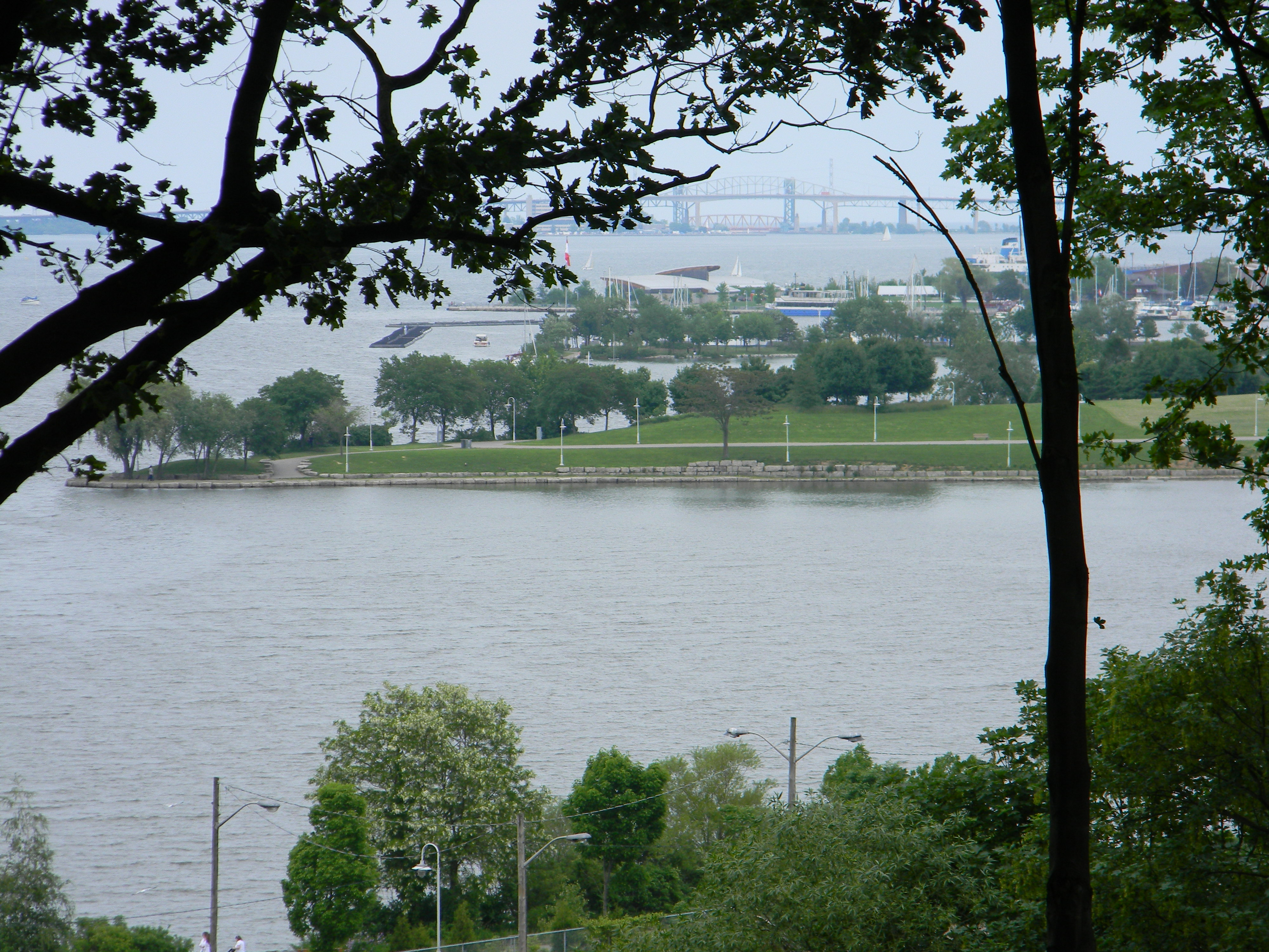 Hamilton Bay, Marina, Burlington Bay James N. Allan Skyway